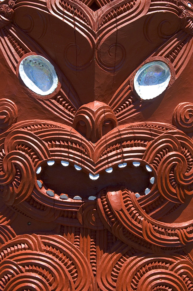 Wood carving, Whakarewarewa (22 January 2005), The North Island, New Zealand.